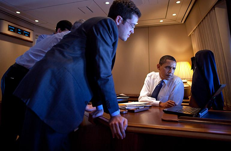 Aboard Air Force One en route to Trinidad and Tobago, President Obama works on his opening remarks to the Summit of the Americas with speechwriter Adam Frankel on April 17, 2009.